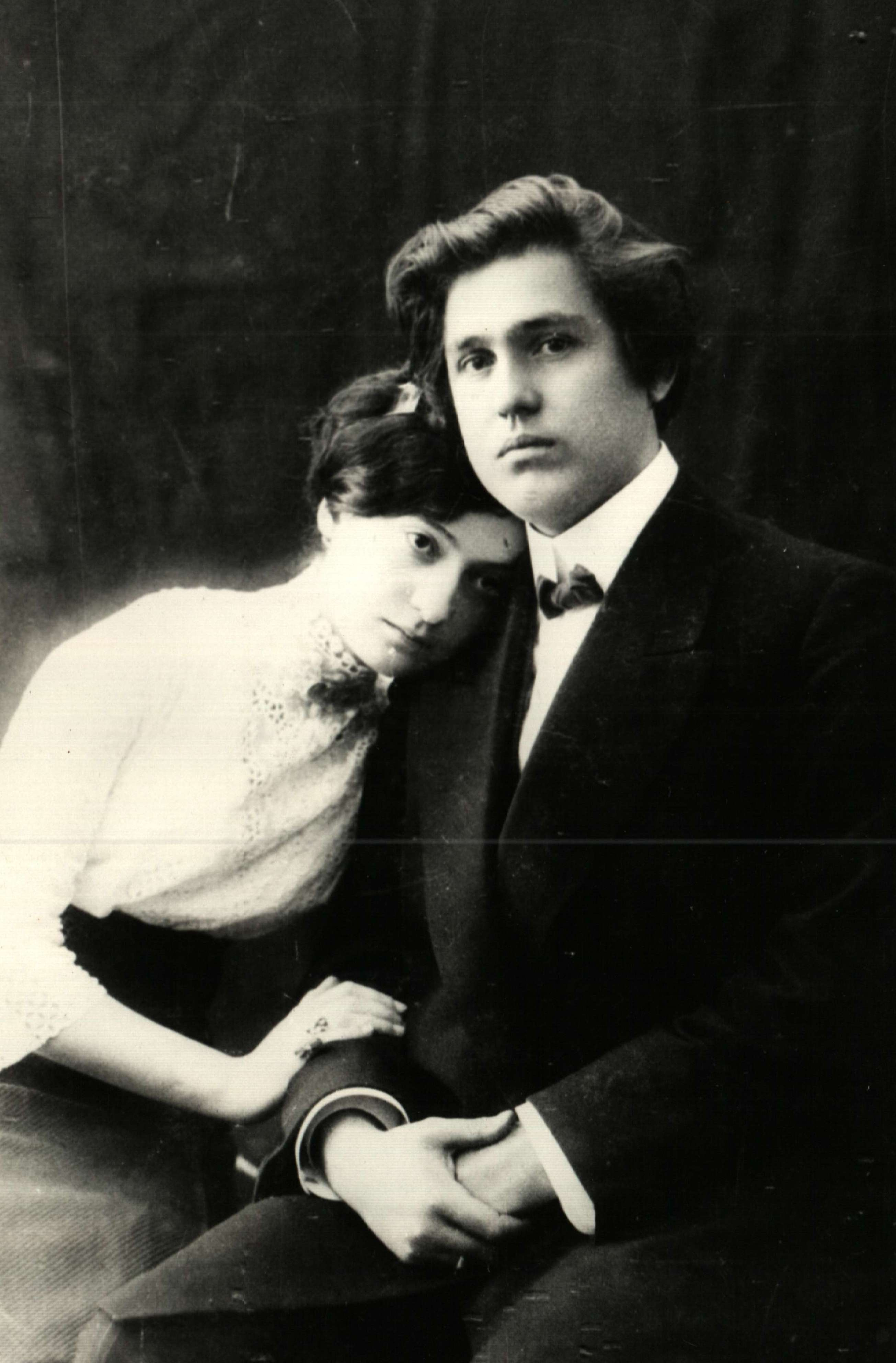 Bulgarian actor Stefan Kirov (1883-1941) and bulgarian opera vocalist Konstantsa Kirova (1896-1991)